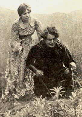 Still from the American western film Riders of the Purple Sage (1918) with Mary Mersch and William Farnum, on page 54 of the July 20, 1918 Exhibitors Herald.